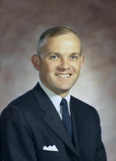 Senator George Scott, 1971